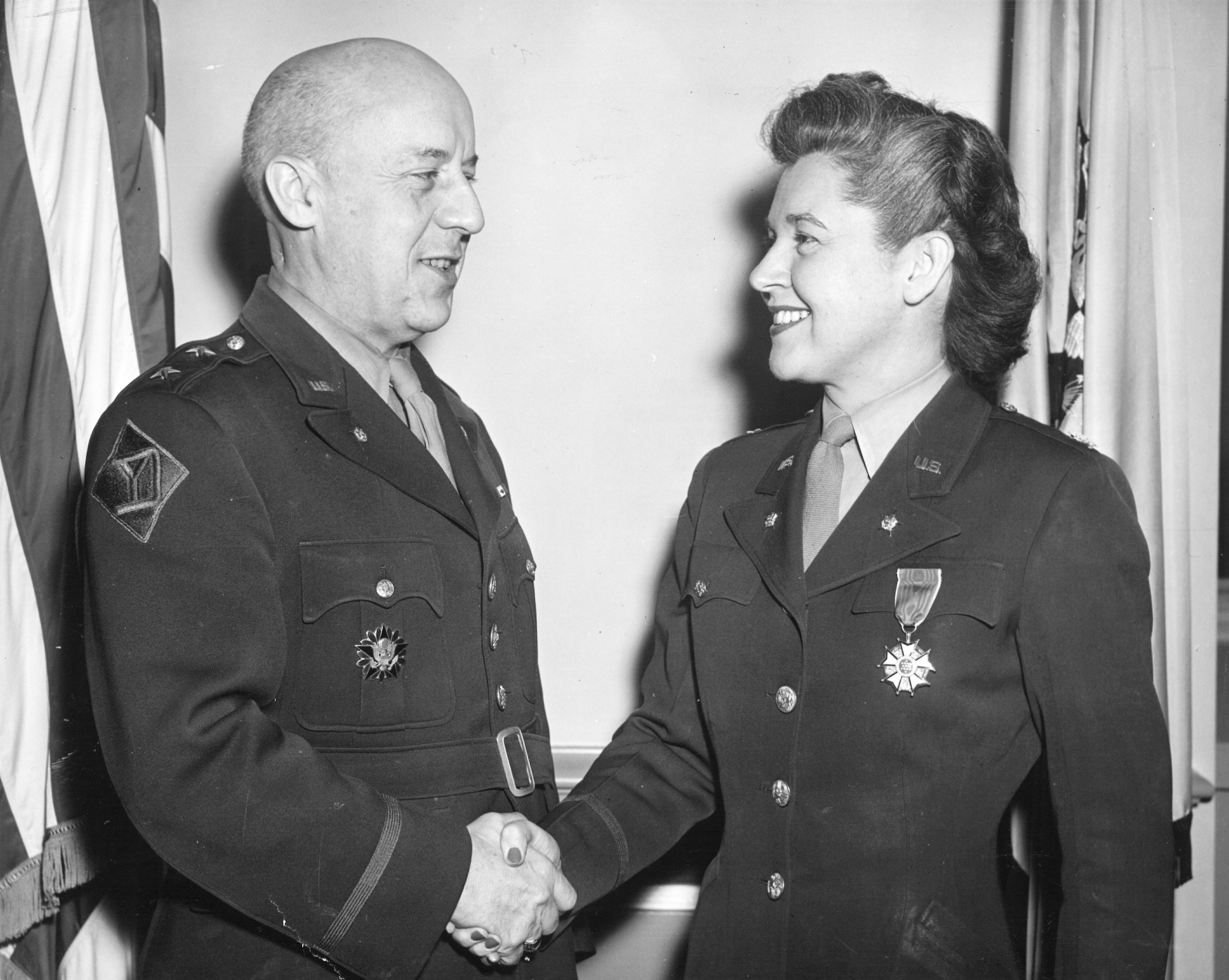 From the back of the photo: Milligan was awarded the Legion of Merit for meritorious achievement as director of the first Women's Army Corps (WAC) Training Center from March 1943 to January 1945, and as executive officer of the center from March to August 1945. Picture taken 12/19/46 at the Pentagon.